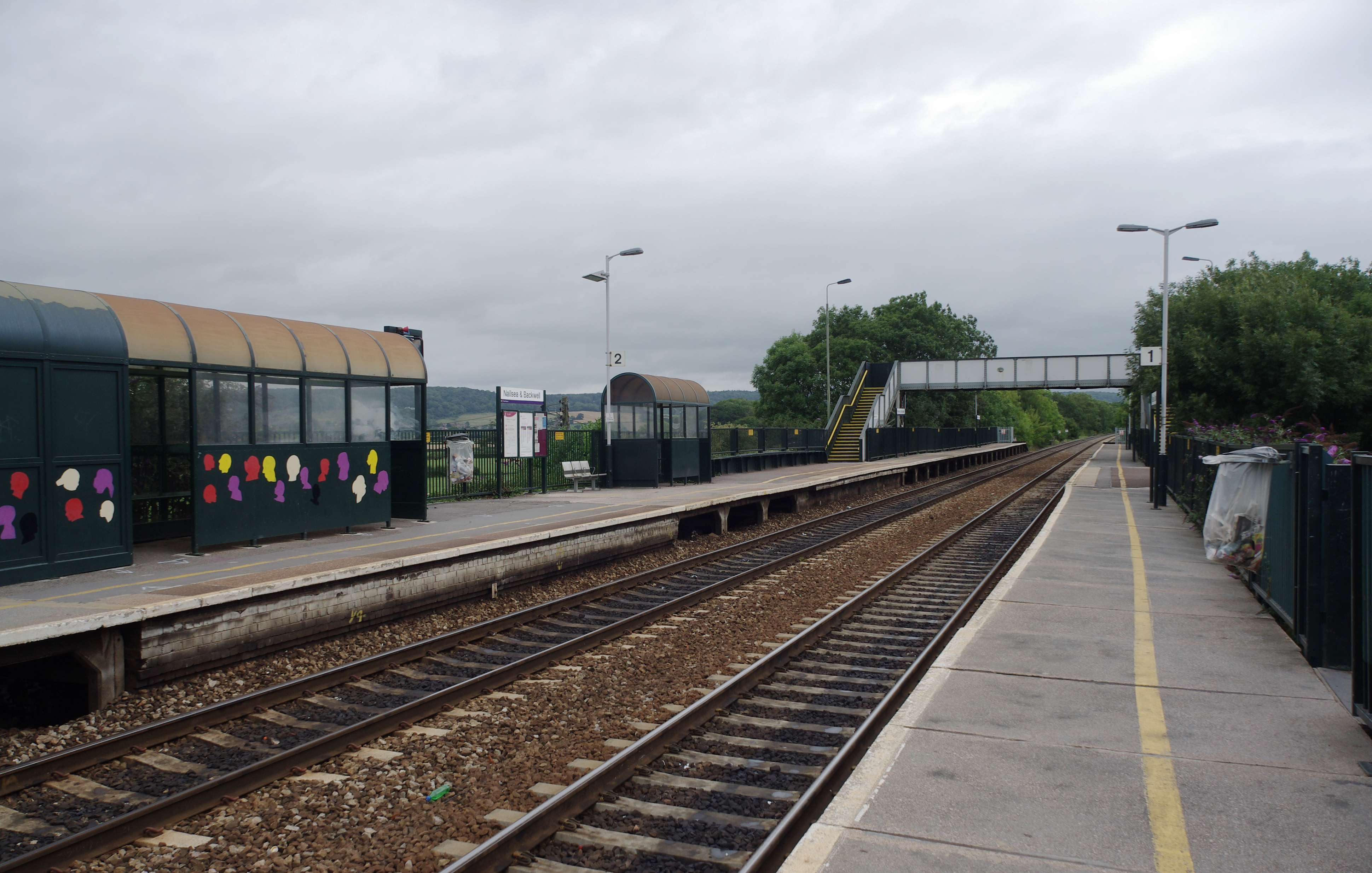 Looking east along the platform at Nailsea & Backwell railway station.